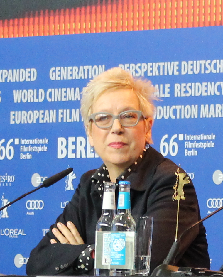 Dorris Dörrie on the Berlinale Press Conference to promote her movie Greetings from Fukushima